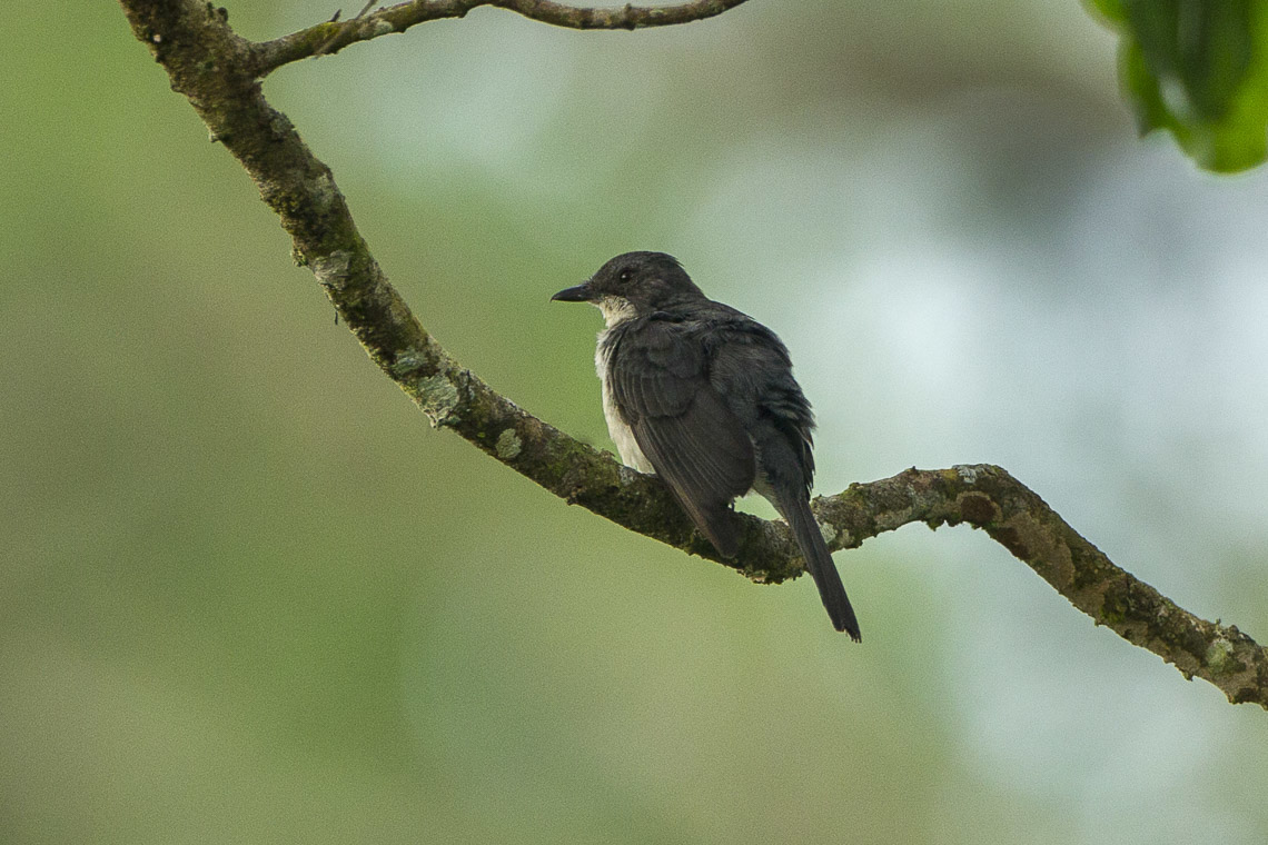 Fraser's Forest Flycatcher from Canopy Walkway - Kakum NP - Ghana 14_S4E2333